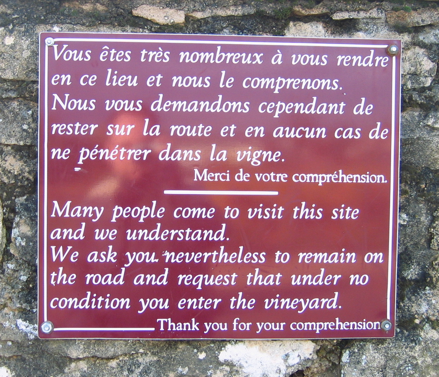 Sign on the stone wall of the Romanée-Conti vineyard asking visitors to keep out. The same sign is posted in several places on the wall.